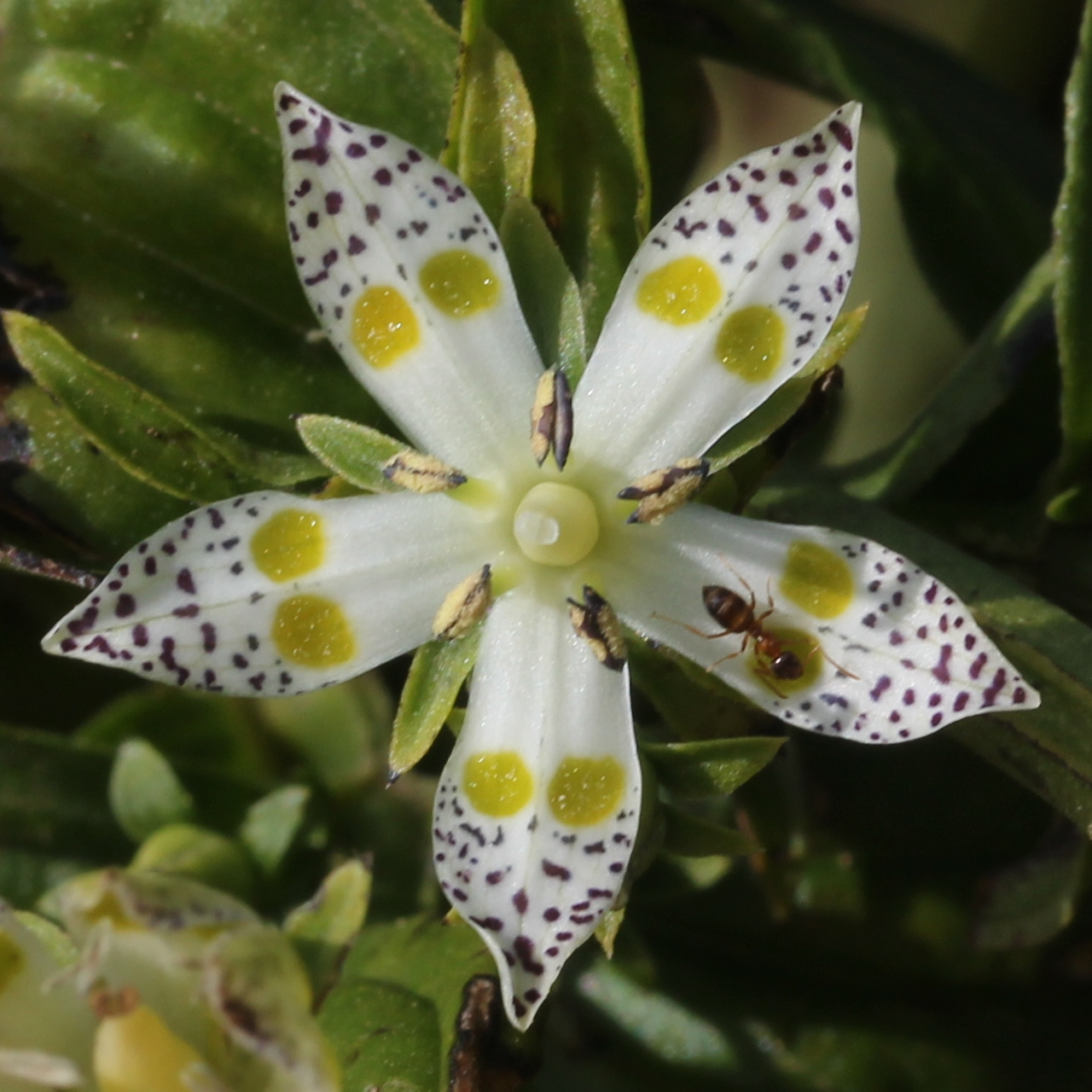 Swertia bimaculata (5 petals) with ant feeding nectar in Mount Fujiwara, Suzuka Mountains, Japan.